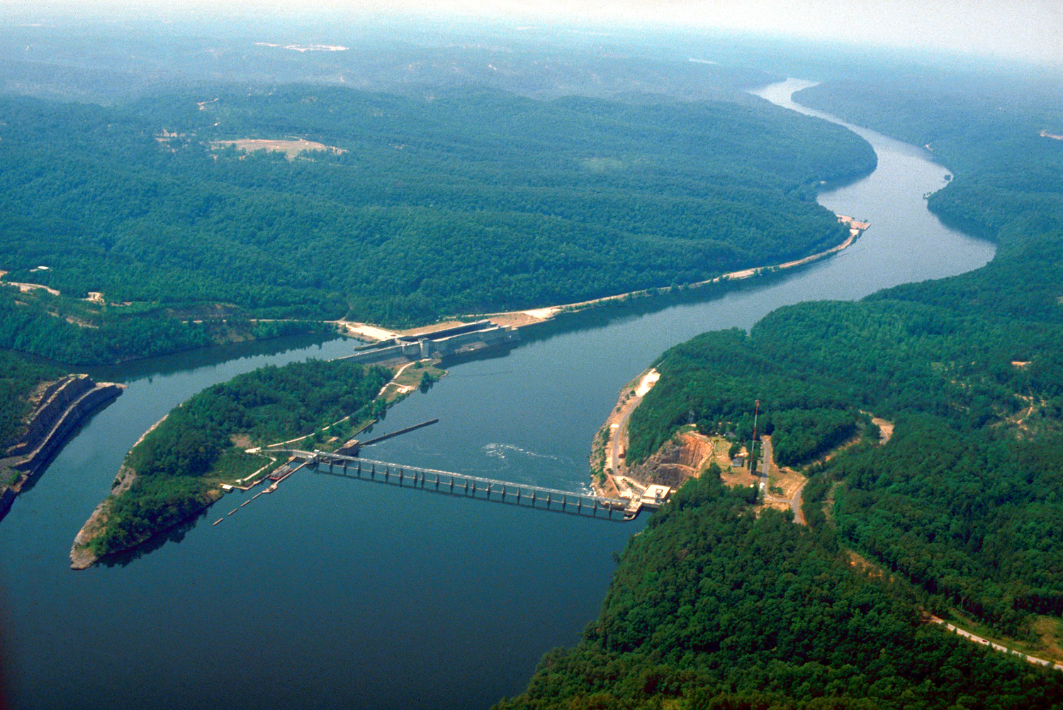 Aerial view of the John Hollis Bankhead Lock and Dam on the Black Warrior River in Tuscaloosa County, Alabama, USA. The dam impounds the river and forms Bankhead Lake above the dam. Directly below the dam is Holt Lake, visible in this photograph, is Holt Lake, which is formed by the Holt Lock and Dam farther downriver. Bankhead Lock and Dam is the uppermost lock and dam on the Black Warrior River. View is downriver to the south.